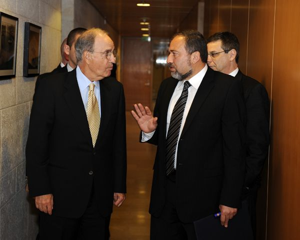 Special Envoy George Mitchell met with Israeli Foreign Minister Avigdor Lieberman at the Foreign Ministry, Jerusalem